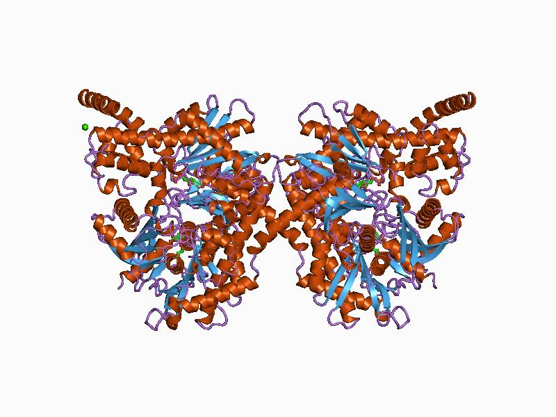 Cartoon representation of the molecular structure of protein registered with 1bg3 code.